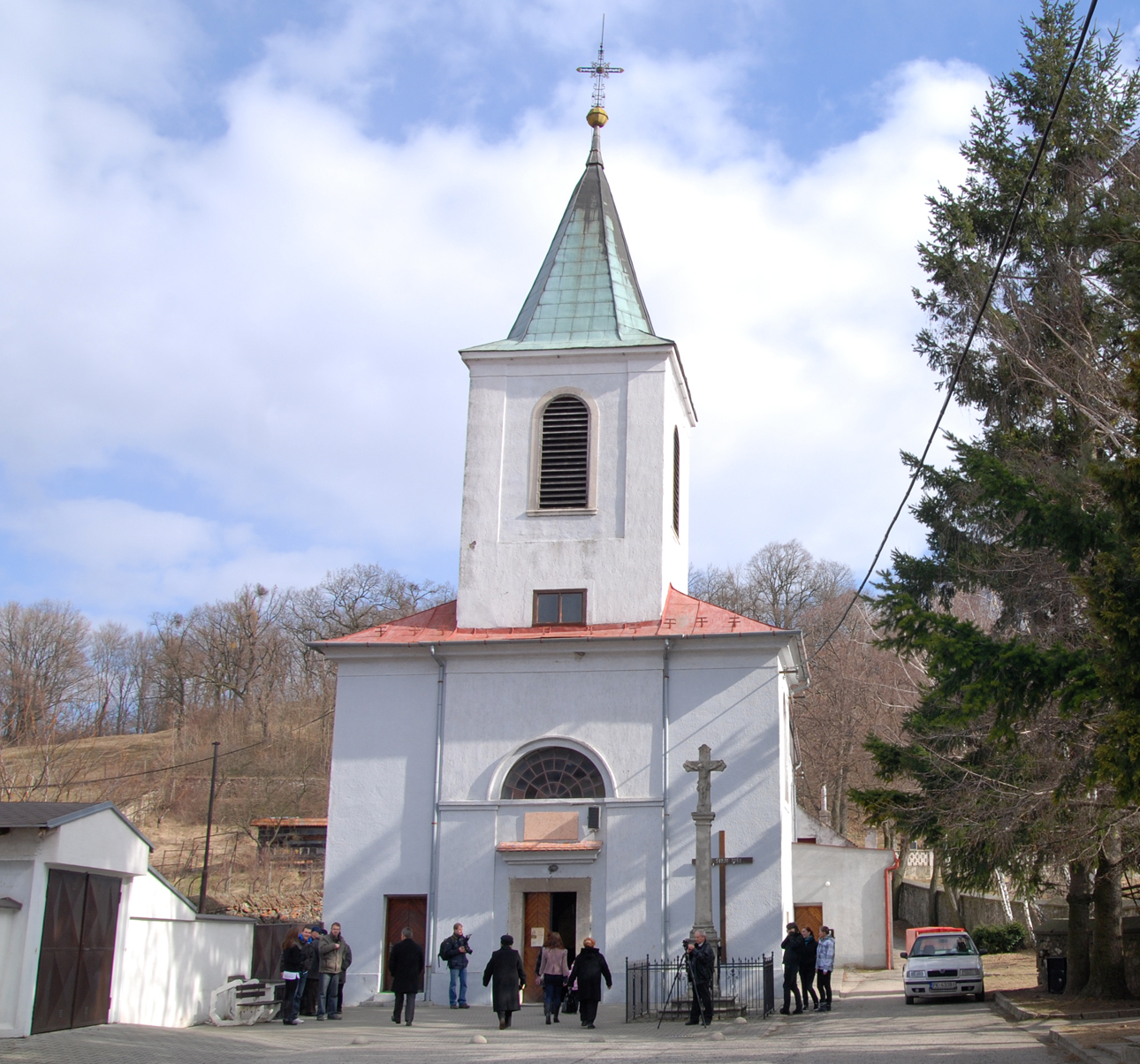 Doľany, a village in Pezinok district, Slovakia, church of St Katherine.